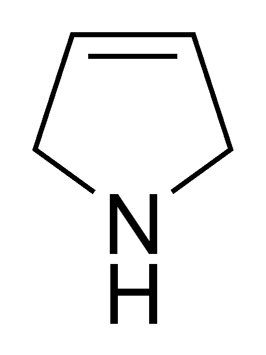 Chemical structure of 3-pyrroline